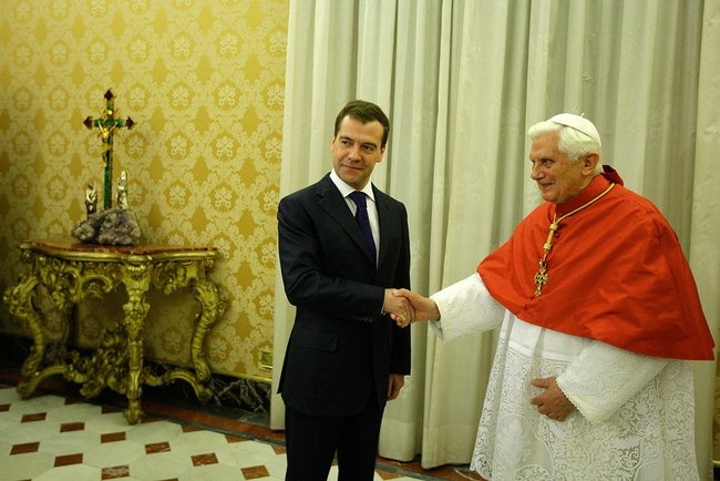 Visiting the Vatican. With Pope Benedict XVI.